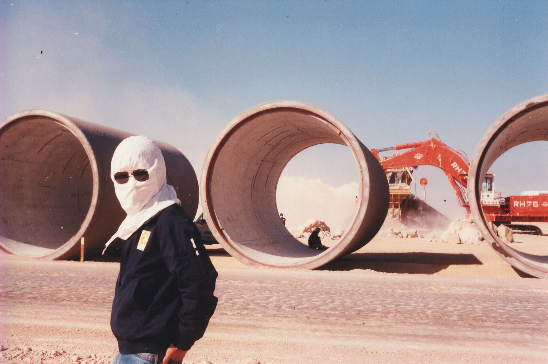 Construction of the Great Man Made River project in Libya